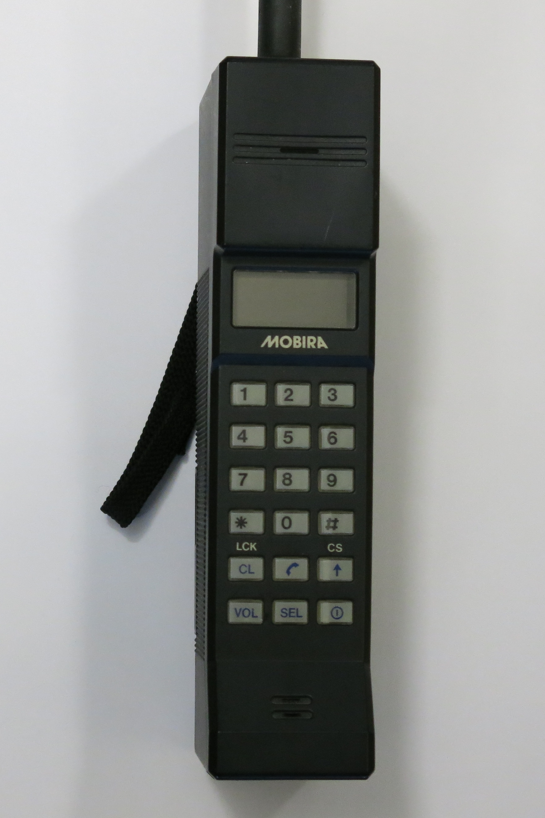 Mobira Cityman NMT450 phone